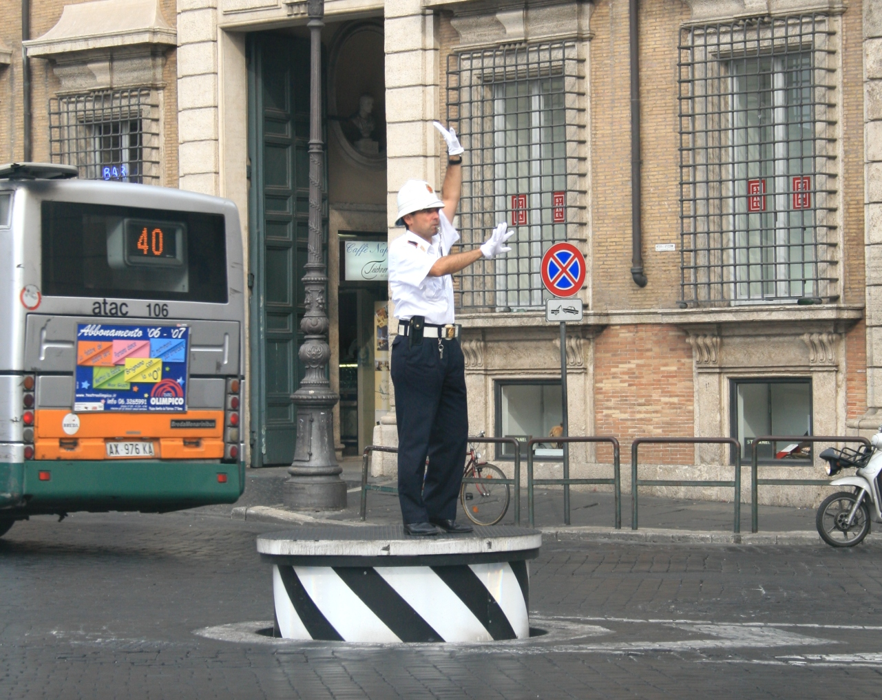 Traffic control at a junction in Rome, Italy. The officer stands on a retractable Podium that lowers back to road level when no longer required. Taken by me in September 2006.